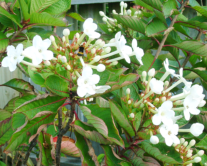 Photo taken by User:Moriori and released PD An IP added the text: This is not Luculia gratissima it is actually Luculia grandifolia